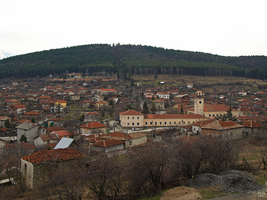 Top view on Slavovitsa